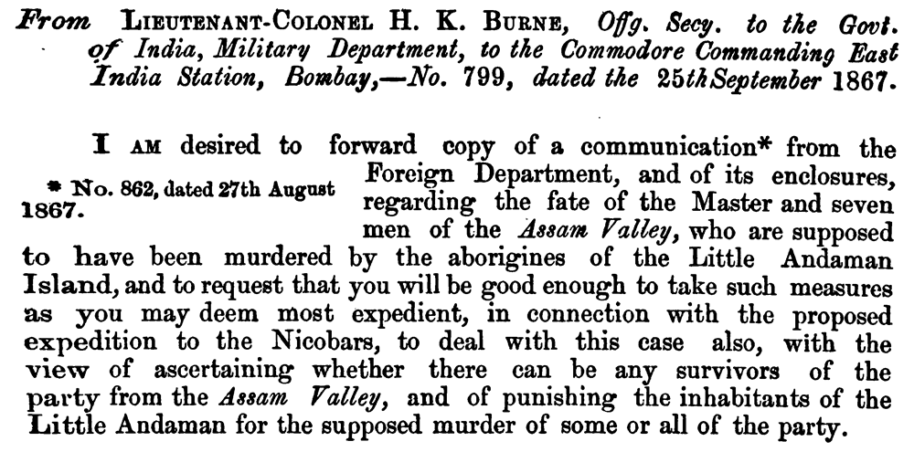 This is an official communication relating to the "Assam Valley Incident" that occurred in 1867 in the environs of Little Andaman Island, India. The authors died more than 70 years ago, which makes it public domain under Indian law.